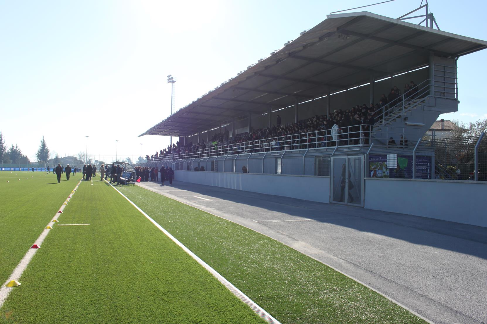 Frosinone Calcio: Cittadella dello Sport training centre in Ferentino. Under 17 Italy vs Span 1-1. Main Stand